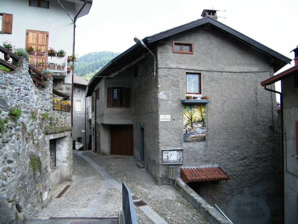 Sucinva of Lozio, Val Camonica